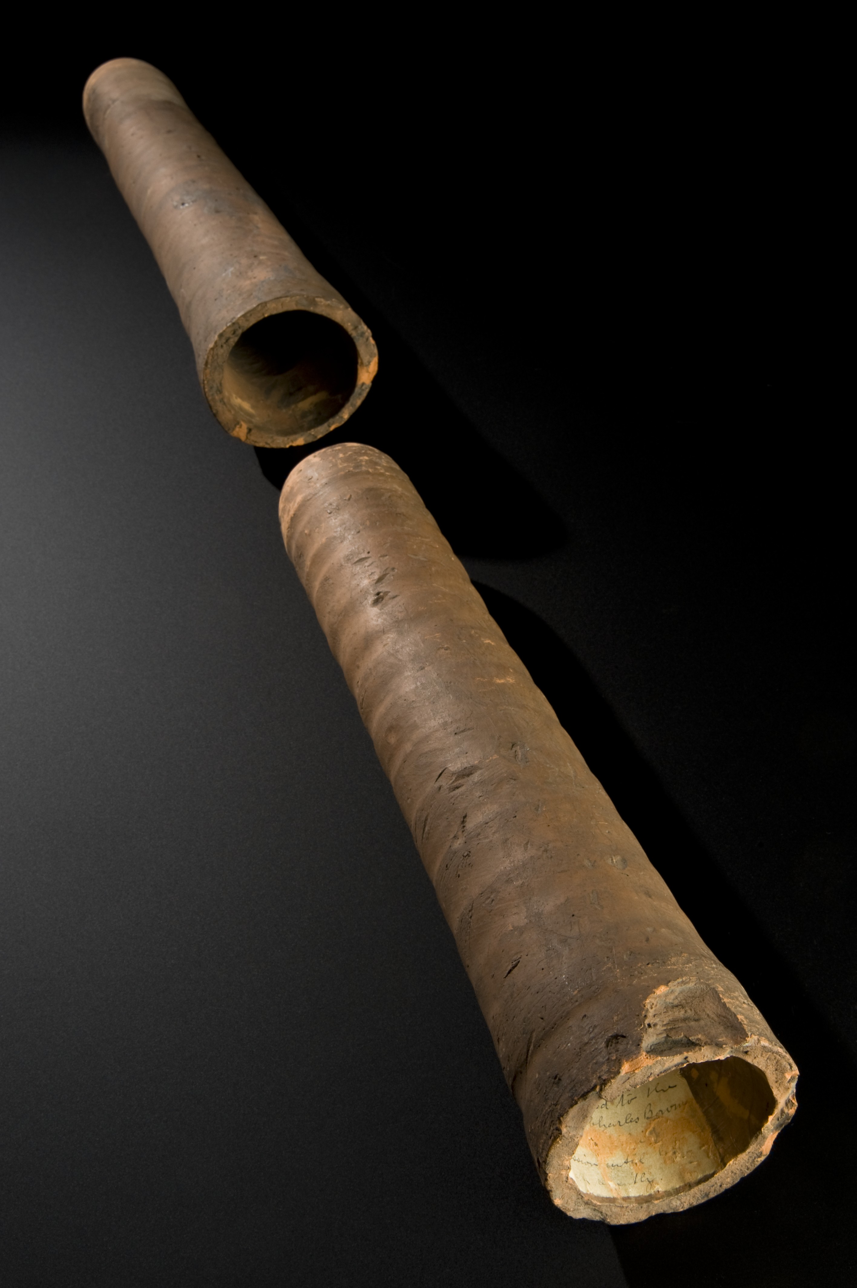 The Romans were renowned for their networks of pipes to supply cities and towns with a water supply. Made from terracotta, such pipes were tapered at one end so that they could be connected together easily. Terracotta pipes were more common than their lead counterparts as they were easier to fix and cheaper to produce. The pipe was found in York, England during an archaeological dig. (Shown here with a similar example, A167087). maker: Unknown maker Place made: Roman Republic and Empire Wellcome Images Keywords: water pipe